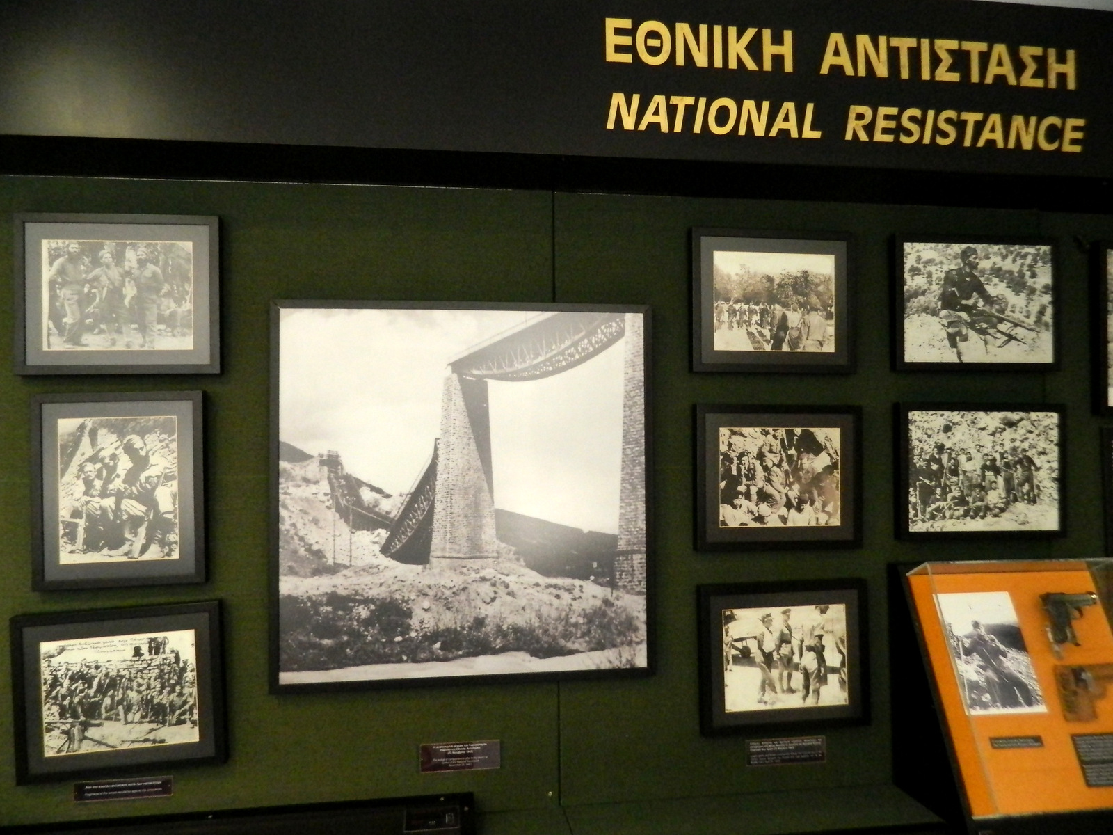 War Museum in Athens. A group of photographs dedicated to damaging of the heavily guarded Gorgopotamos bridge. Part of the exposition of the Greek National Resistance 1942-1945.